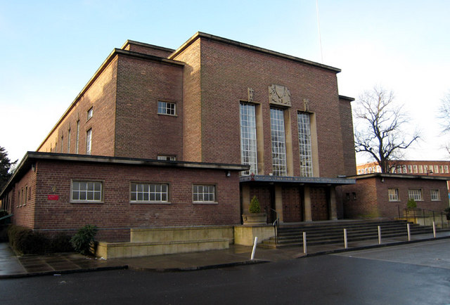 Sir William Whitla Hall, Queen's University, Belfast Hall of the university opened in 1949 as a tribute to Sir William Whitla, a former vice-chancellor. See William_Whitla for more information on Sir William.